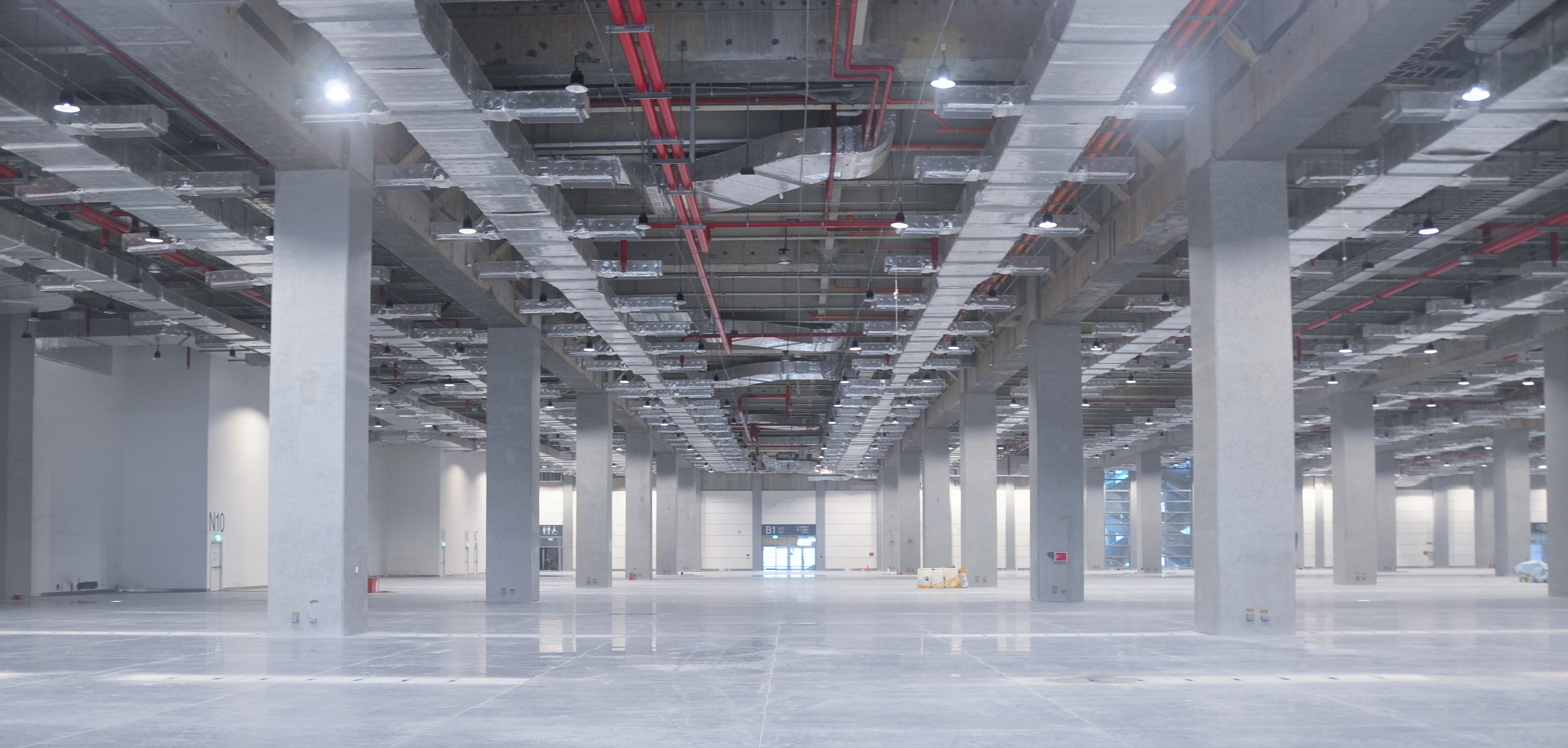 TNEC 2- 4th floor